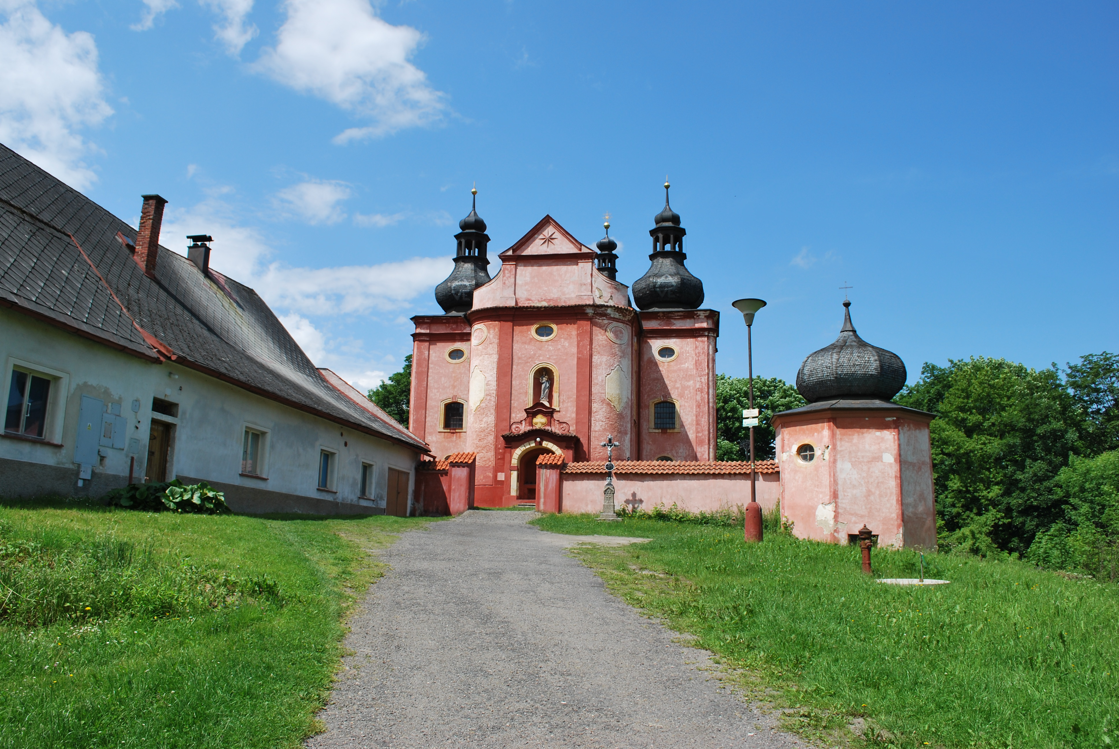 Church in Strašín village in Klatovy District, Czech republic. This photograph was taken within the scope of the 'Czech Municipalities Photographs' grant.